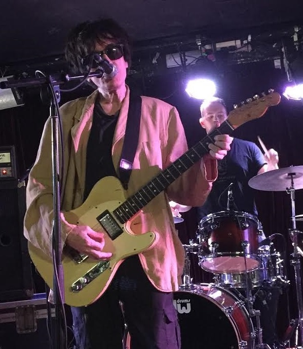 Peter Perrett in 2015